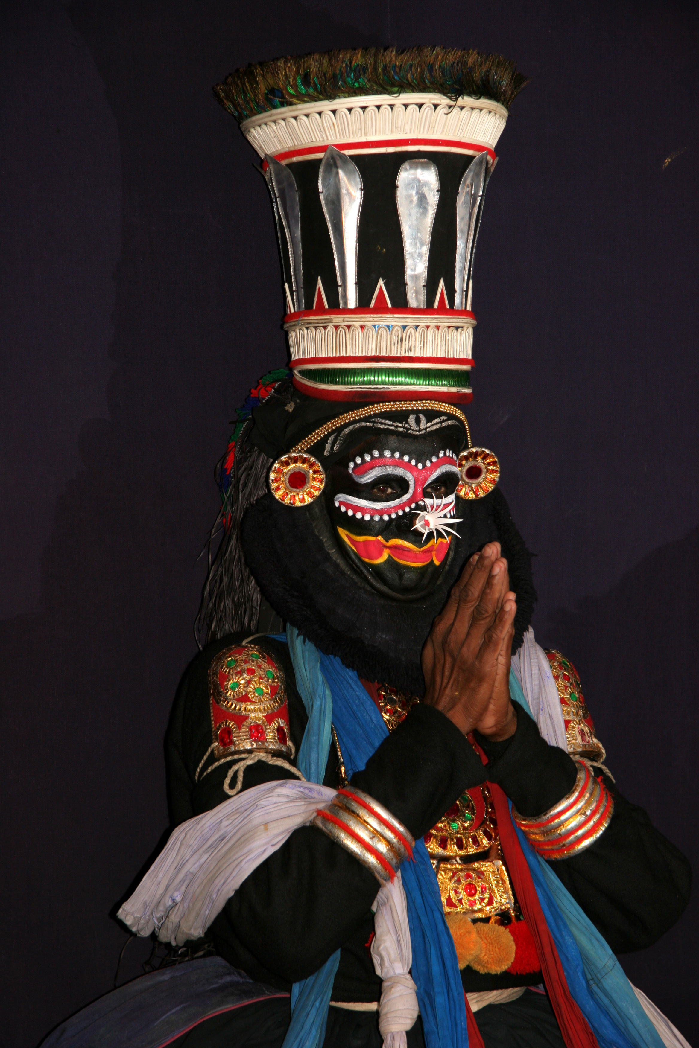 indian actor kathakali